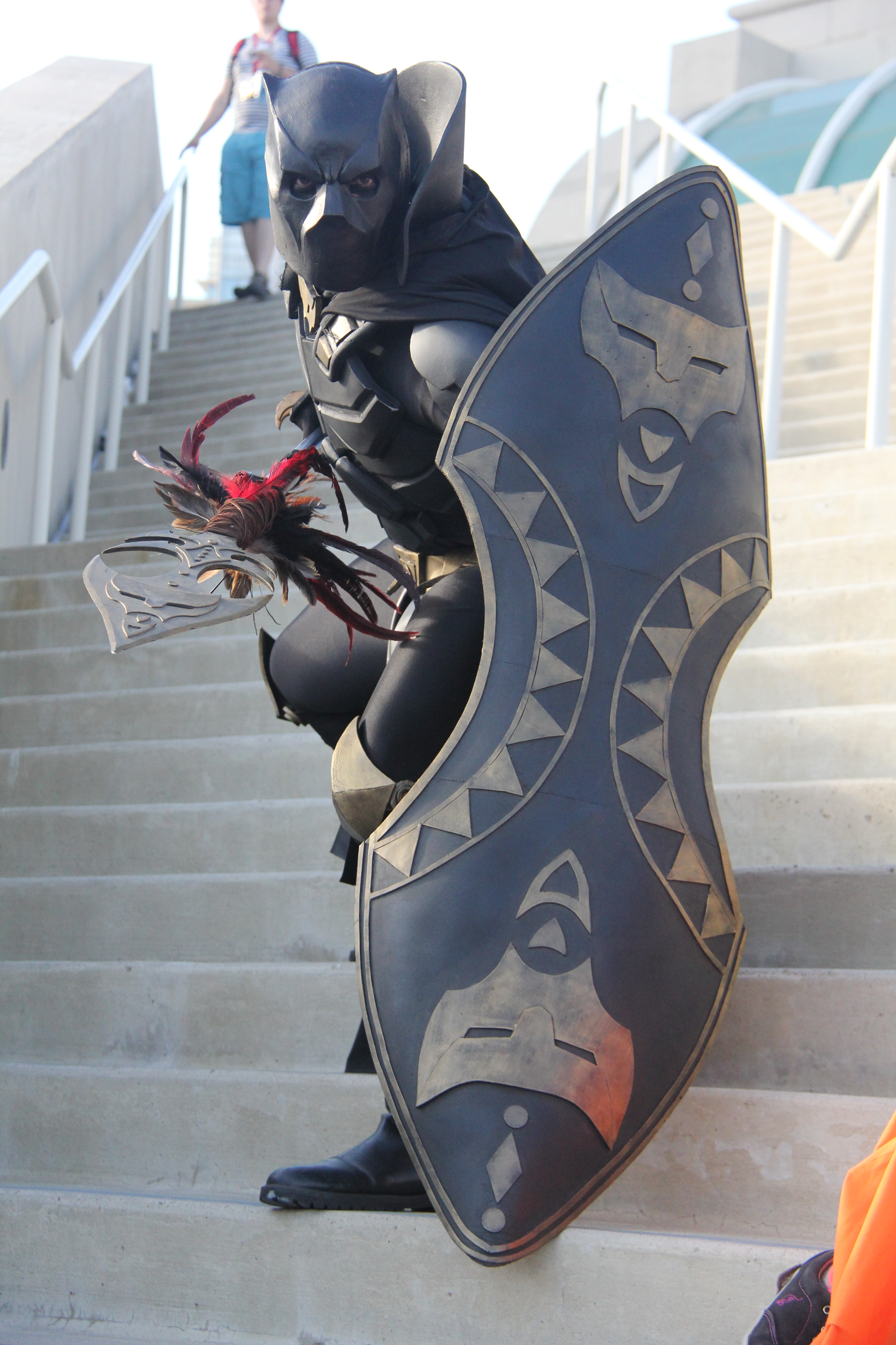 IMG_0613 Cosplay at San Diego Comic-Con (SDCC 2014).